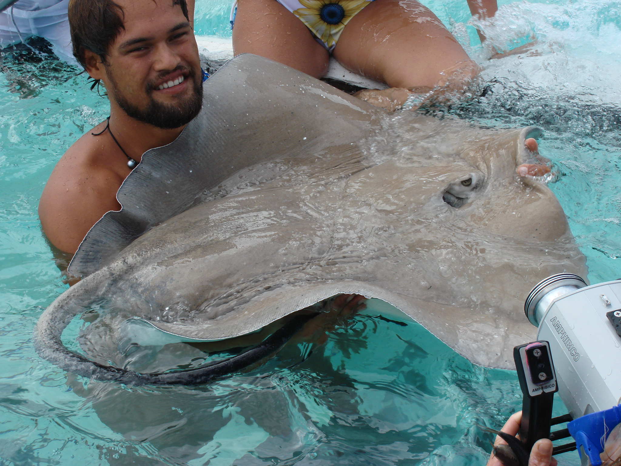 Swimmer holding a pink whipray (Himantura fai) off Bora Bora